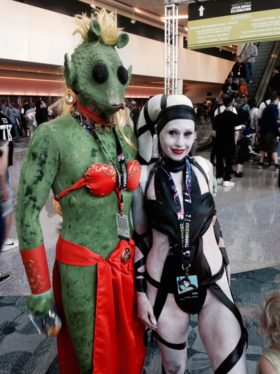 Cosplayers at Star Wars Celebration 2015 at the Anaheim Convention Center. Star Wars Celebration in Anaheim, April 2015.